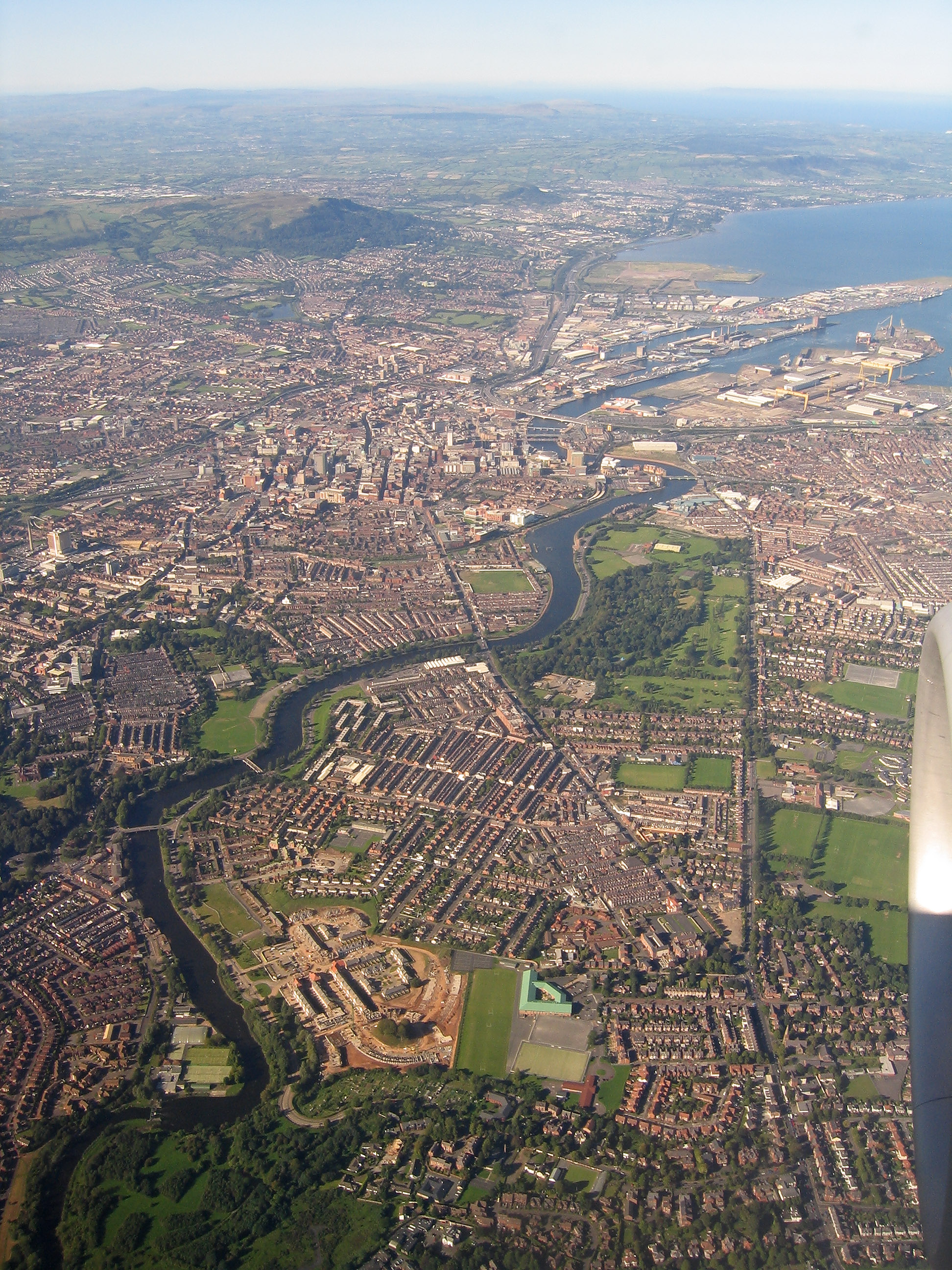 Aerial photo of south-east, central and north Belfast, taken from a plane on a clear evening, 9th September 2004. Includes the River Lagan, Stranmillis, Annadale Embankment, Ormeau Road, Ravenhill Road, Ormeau Park, City Hospital, parts of east and west Belfast, Belfast Docks, Mallusk, Cave Hill, Carnmoney Hill and extends to the Glens of Antrim, Causeway Coast and the coast of Scotland in the distance.